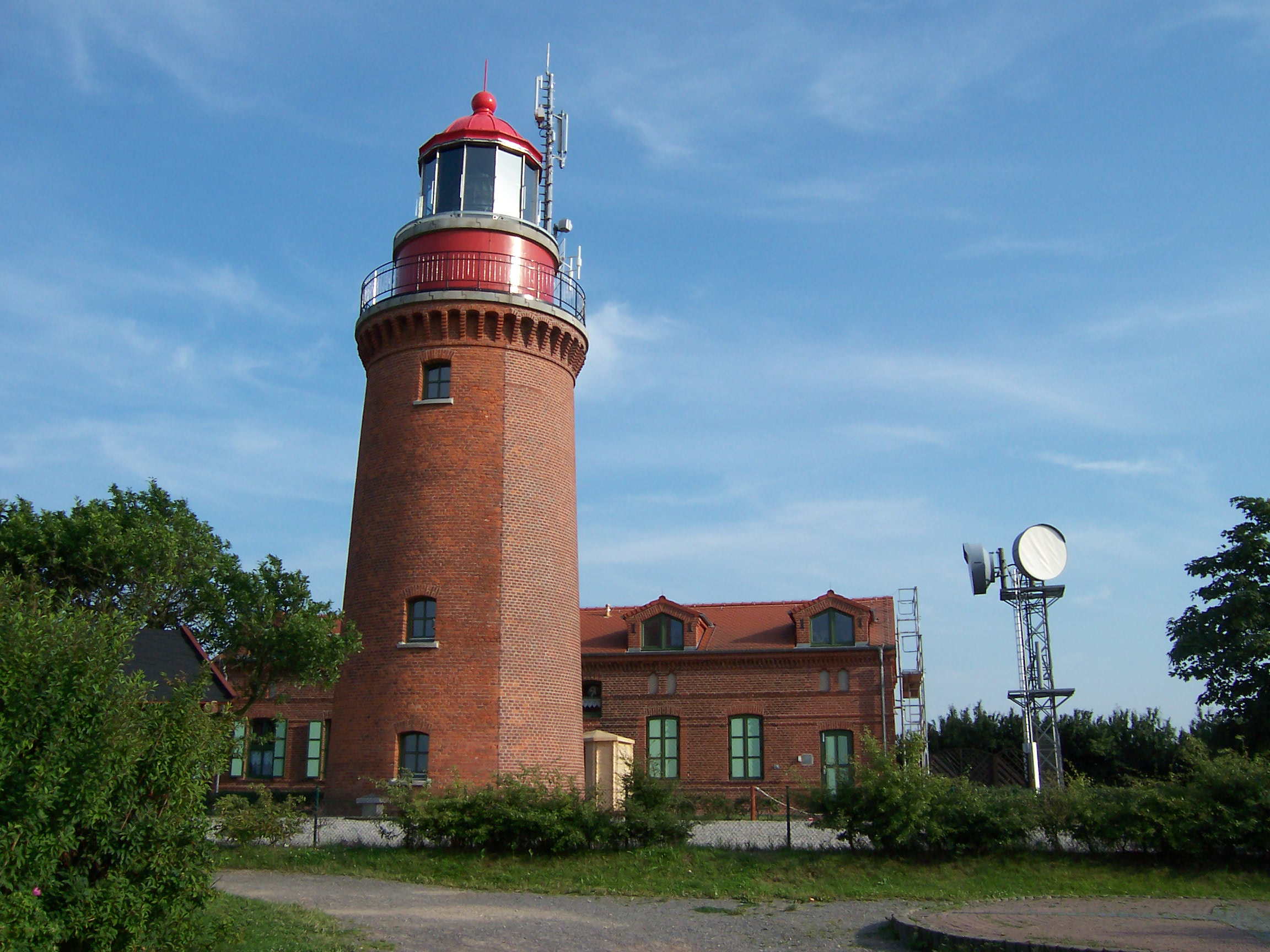 Lighthouse Buk in Bastorf, Mecklenburg-Vorpommern, Germany